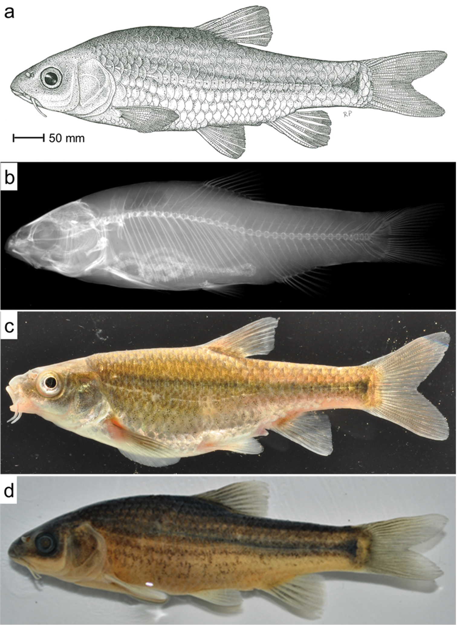 a Habitus of Pseudobarbus verloreni sp. n. (holotype, SAIAB186092). Drawing by R. Palmer b Radiograph of Pseudobarbus verloreni sp. n. (holotype, SAIAB186092) c Live colours of Pseudobarbus verloreni sp. n. (SAIAB186108). Picture by W. Bronaugh d Preserved colours of Pseudobarbus verloreni sp. n. (holotype, SAIAB186092).